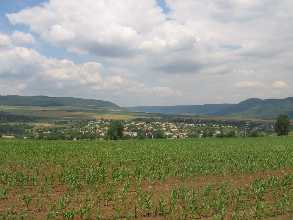 View to village Gagovo, Bulgaria